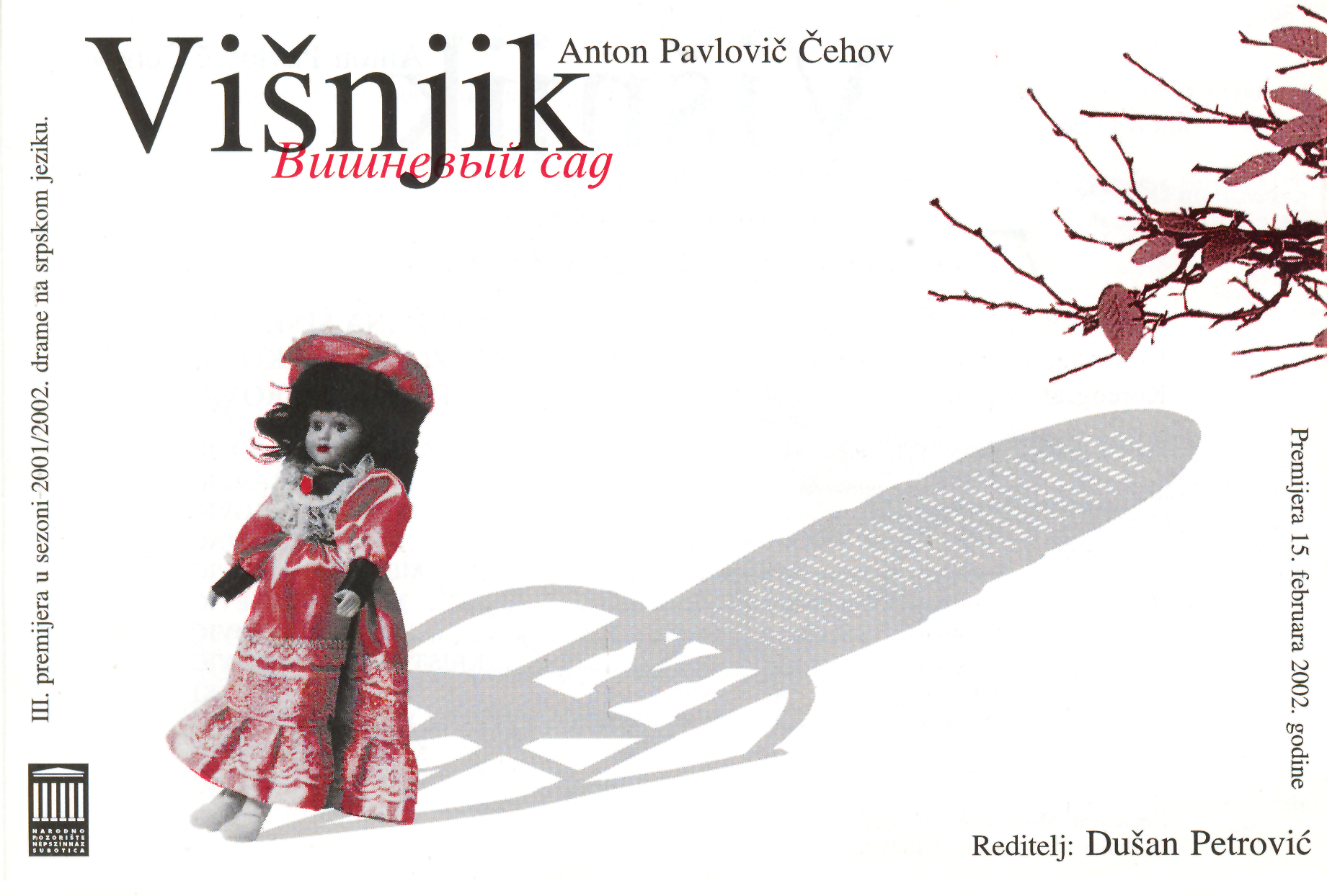 Brochure for performance: The Cherry Orcharda by Anton Chekhov directed by Dušan Petrović, Novi Sad, SNT, 2001st/2002nd Srpski (latinica): Programska knjižica za predstavu: Višnjik, Antona Čehova u režiji Dušana Petrovića, Novi Sad, SNP, 2001/2002. Српски (ћирилица): Програмска књижица за представу: Вишњик, Антона Чехова у режији Душана Петровића, Нови Сад, СНП, 2001/2002.